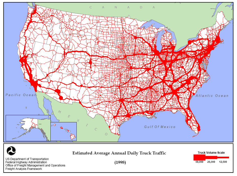 Map of daily truck traffic on United States highways in 1998.